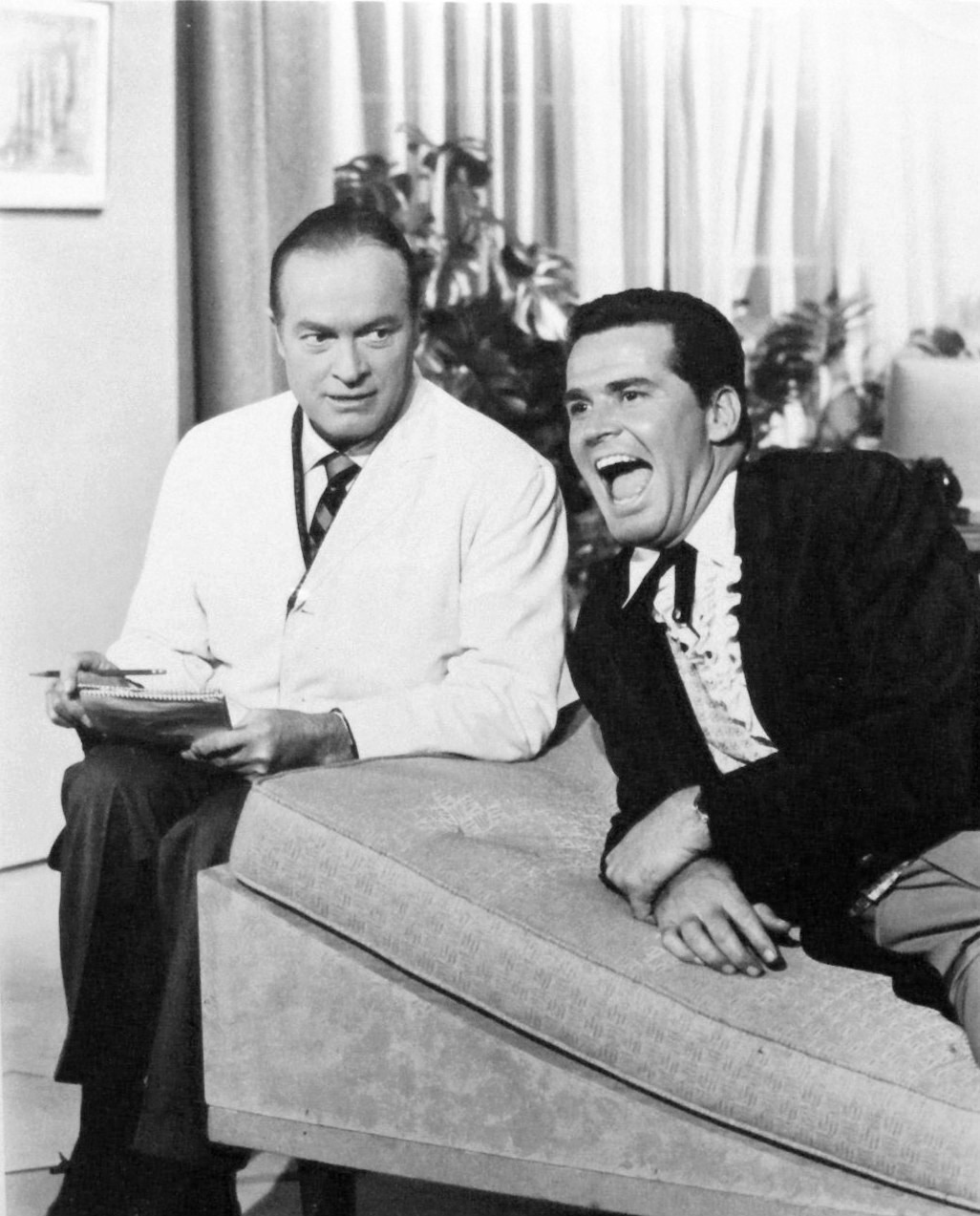 Photo of Bob Hope and James Garner rehearsing a skit for the television special The Bob Hope Buick Show.